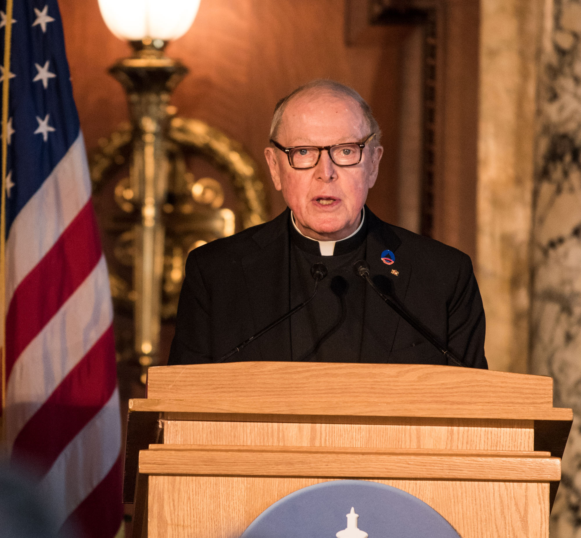 Rev. Leo J. O'Donovan speaking at the Anne Frank Awards, on September 14, 2017, at the Embassy of the Netherlands in Washington, D.C, United States. Library of Congress, Washington DC, photos: Stephen Voss